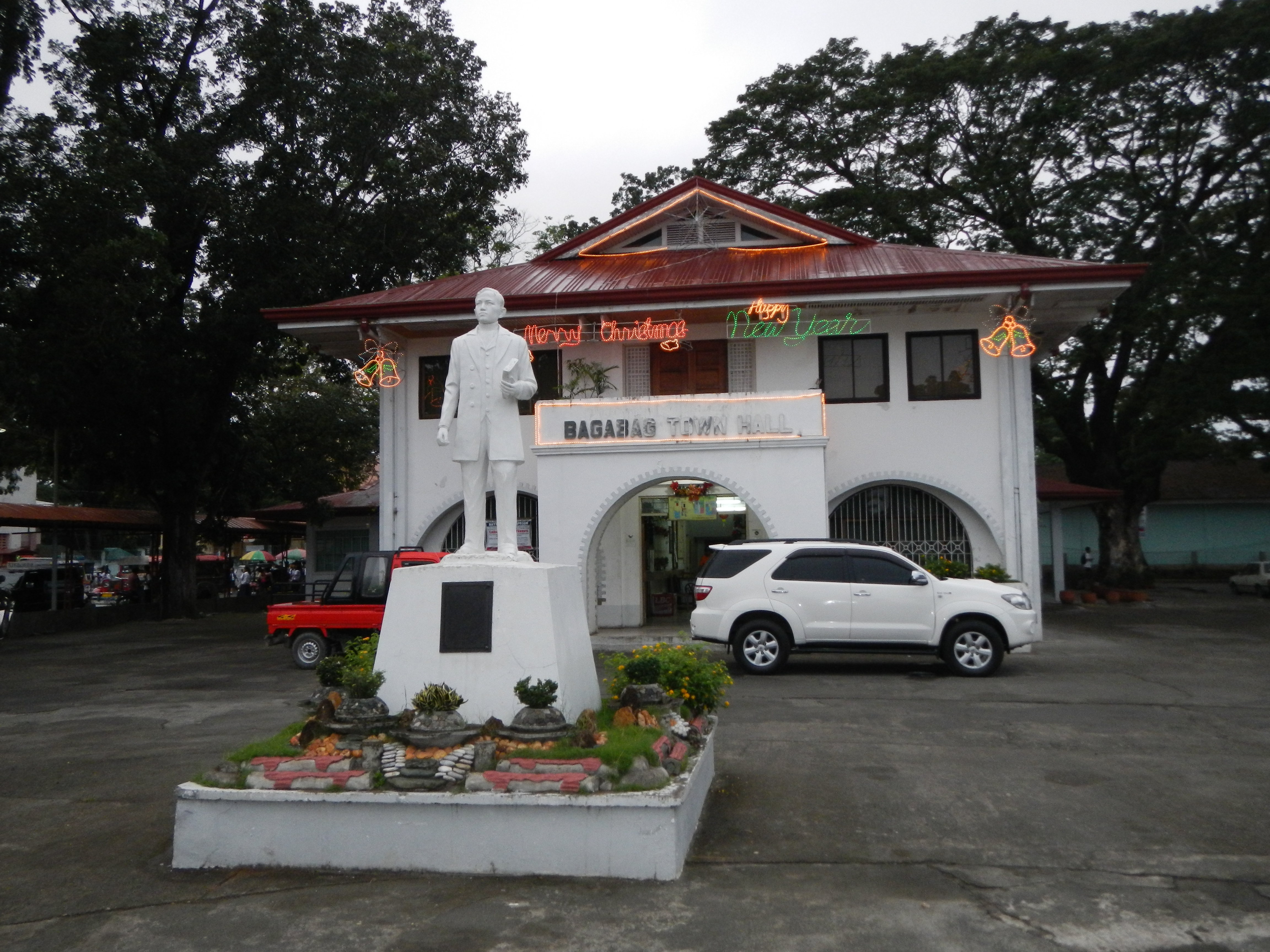 Upload Wizard Panorama photos of -- Town Hall Complex Compound of Bagabag, Nueva Vizcaya[1] (2nd class municipality in the province of Nueva Vizcaya, Philippines politically subdivided into 19 barangays) located in .San Pedro, Nueva Vizcaya[2] San Pedro is one of the barangays of municipality of Bagabag, in the Philippine province of Nueva Vizcaya located in the town proper of poblacion - Politically and geographically, it is divided into 5 puroks (Purok 1, Purok 2, Purok 3, Purok 4 and Purok 5).